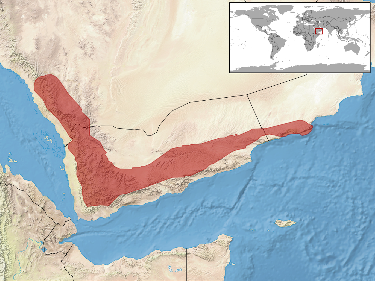 geographic distribution of Acanthocercus adramitanus